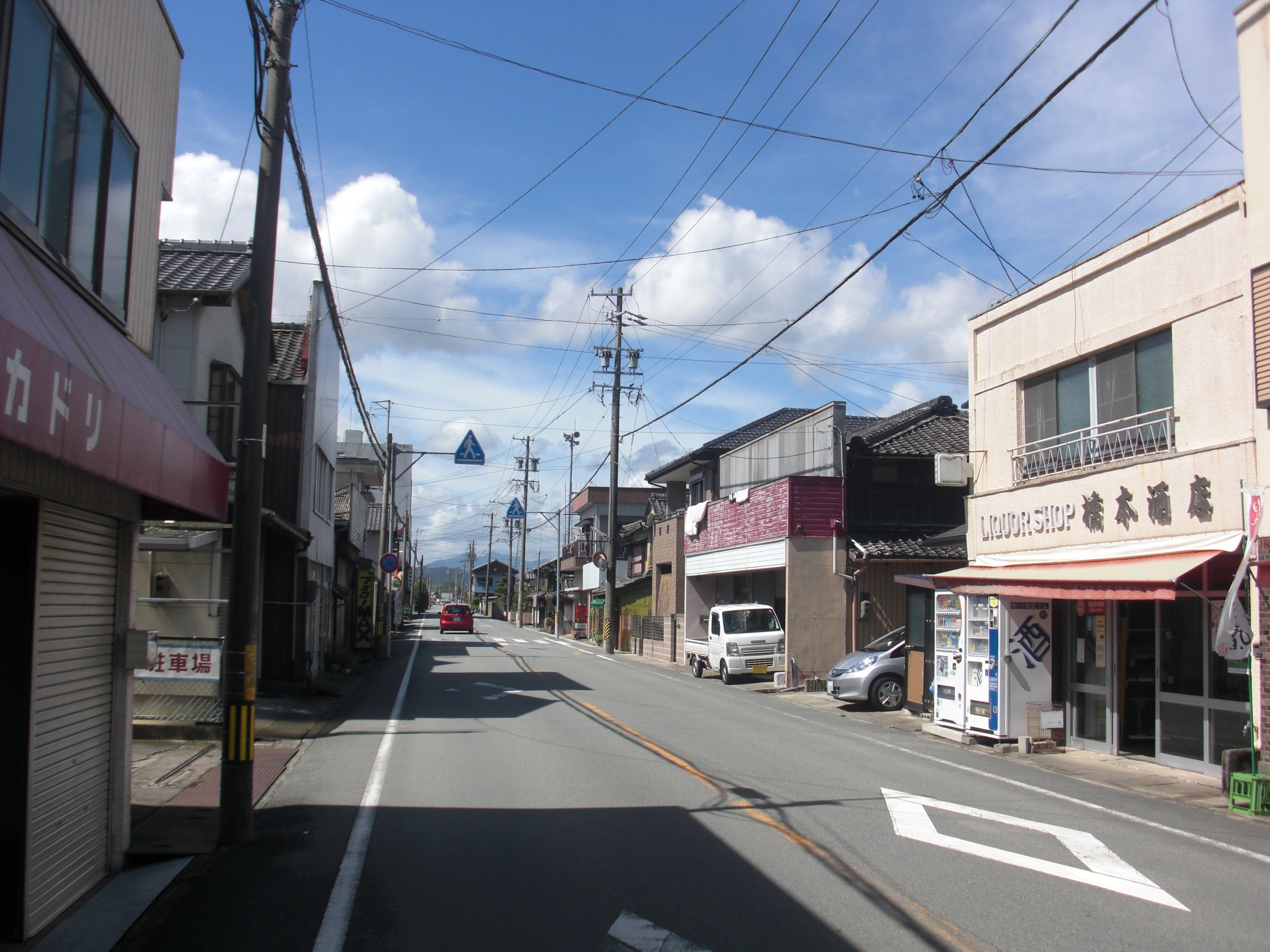 This is a landscape of Taki, Taki-cho, Taki-gun, Mie, Japan.